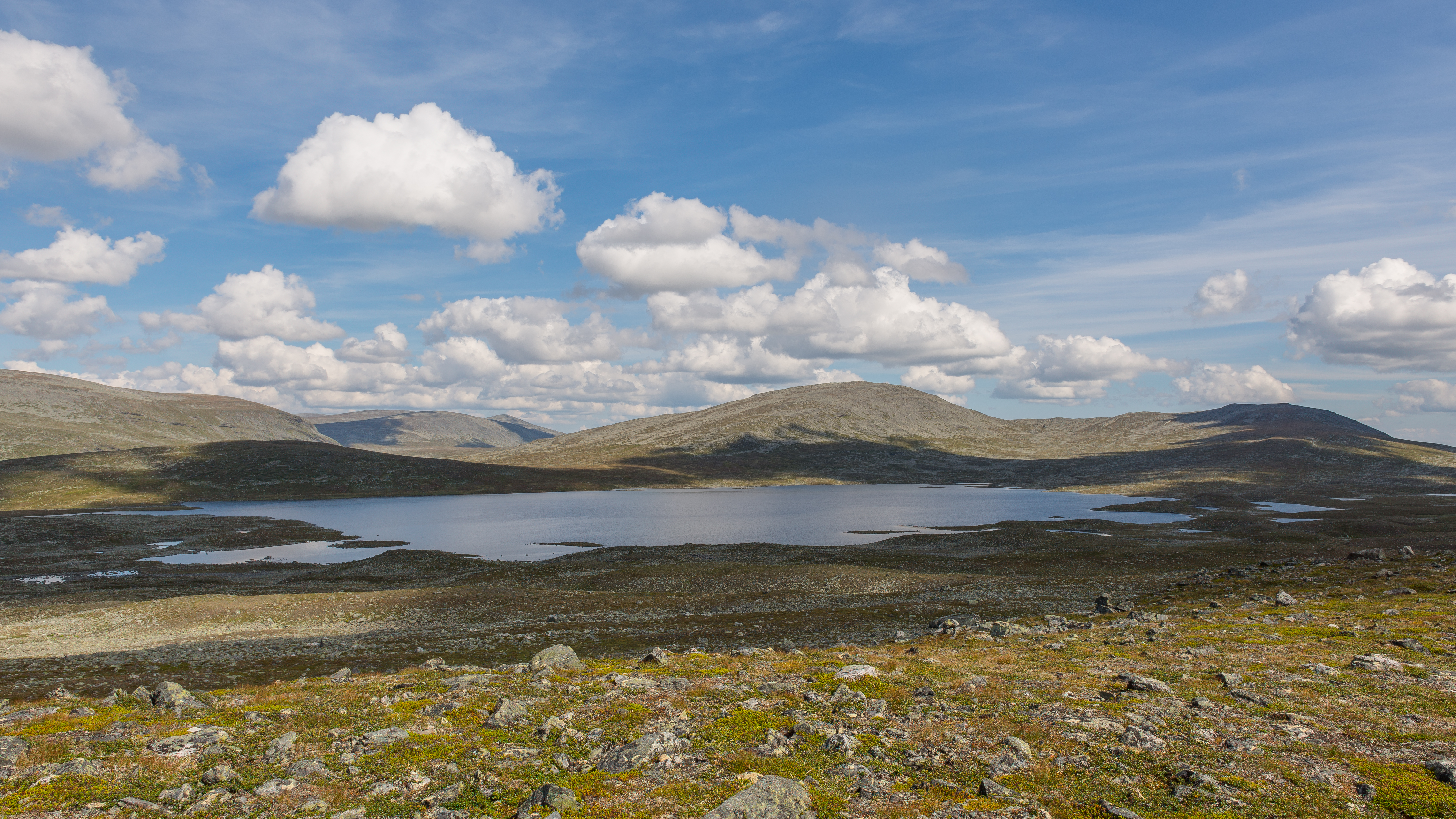 Lake Dunsjön, Ljungdalen, Berg Municipality, Jämtland County.